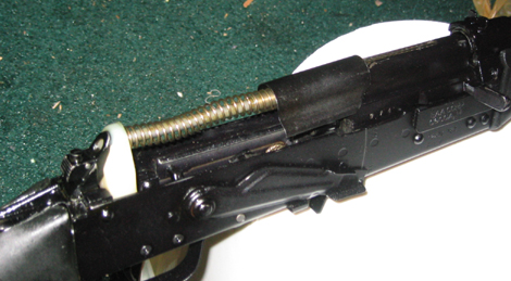 A saiga-12 shotgun with the dust cover removed to expose the bolt carrier, gas tube and the metal flap that seals the action when the bolt is closed. Note how it rides in the middle of the recoil spring assembly, causing it to be exactly halfway between the extractor and the rear of the receiver at all times.